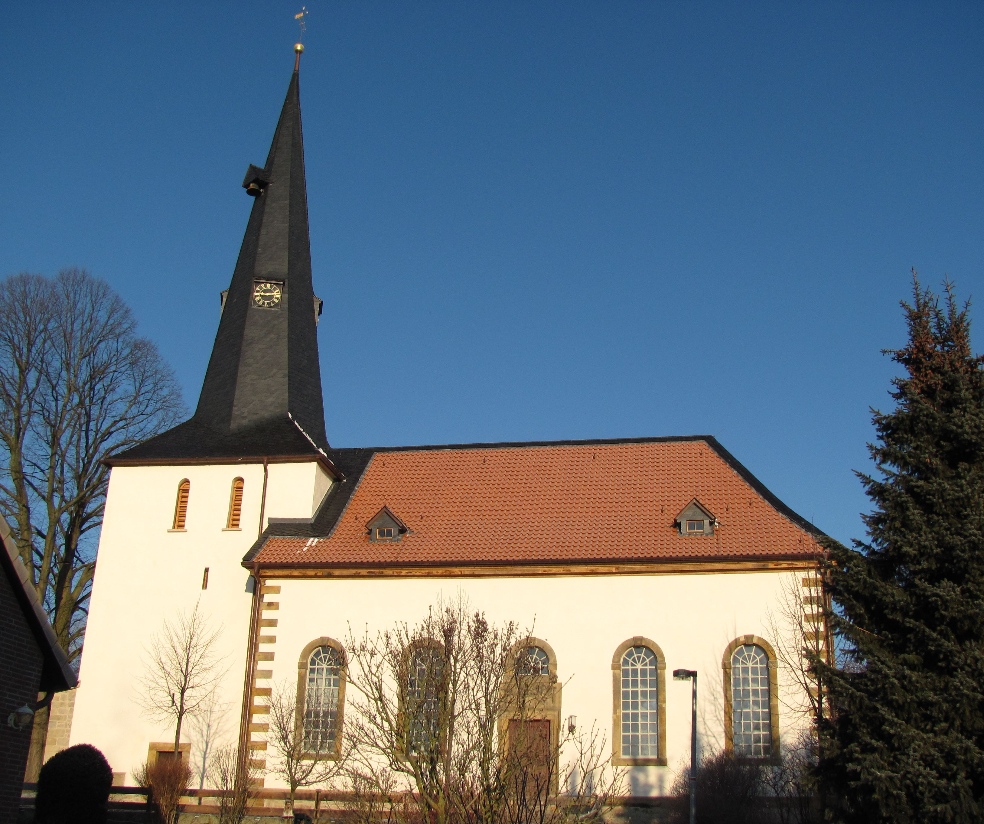 Protestant Church, Bockenem-Nette near Hildesheim, Lower Saxony, Germany